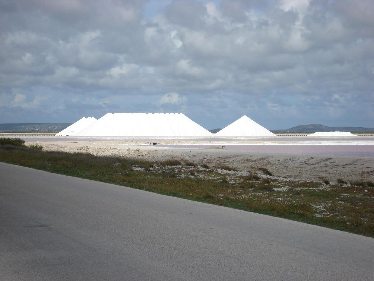 Where they create salt but don't use it on the island